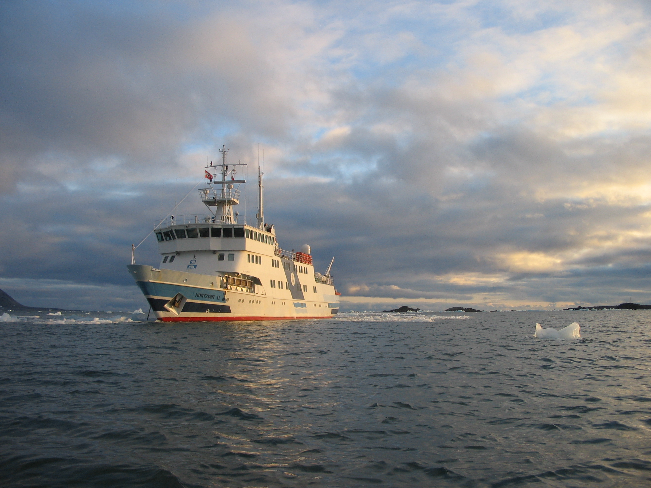 MS Horyzont II in Isbjørnhamna, Hornsund, Svalbard